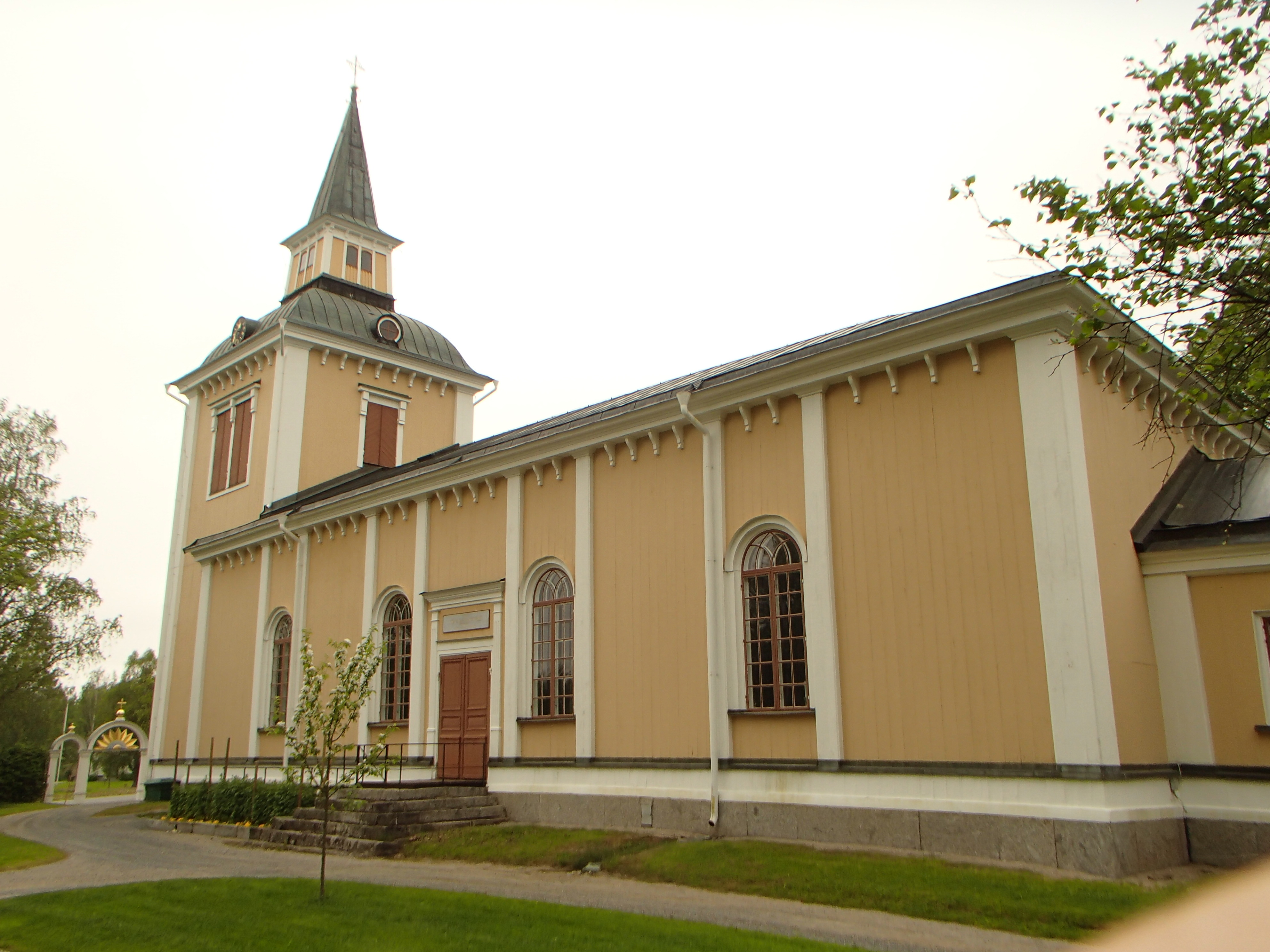 The church building of "Gideå kyrka" at Gideå in Örnsköldsvik Municipality